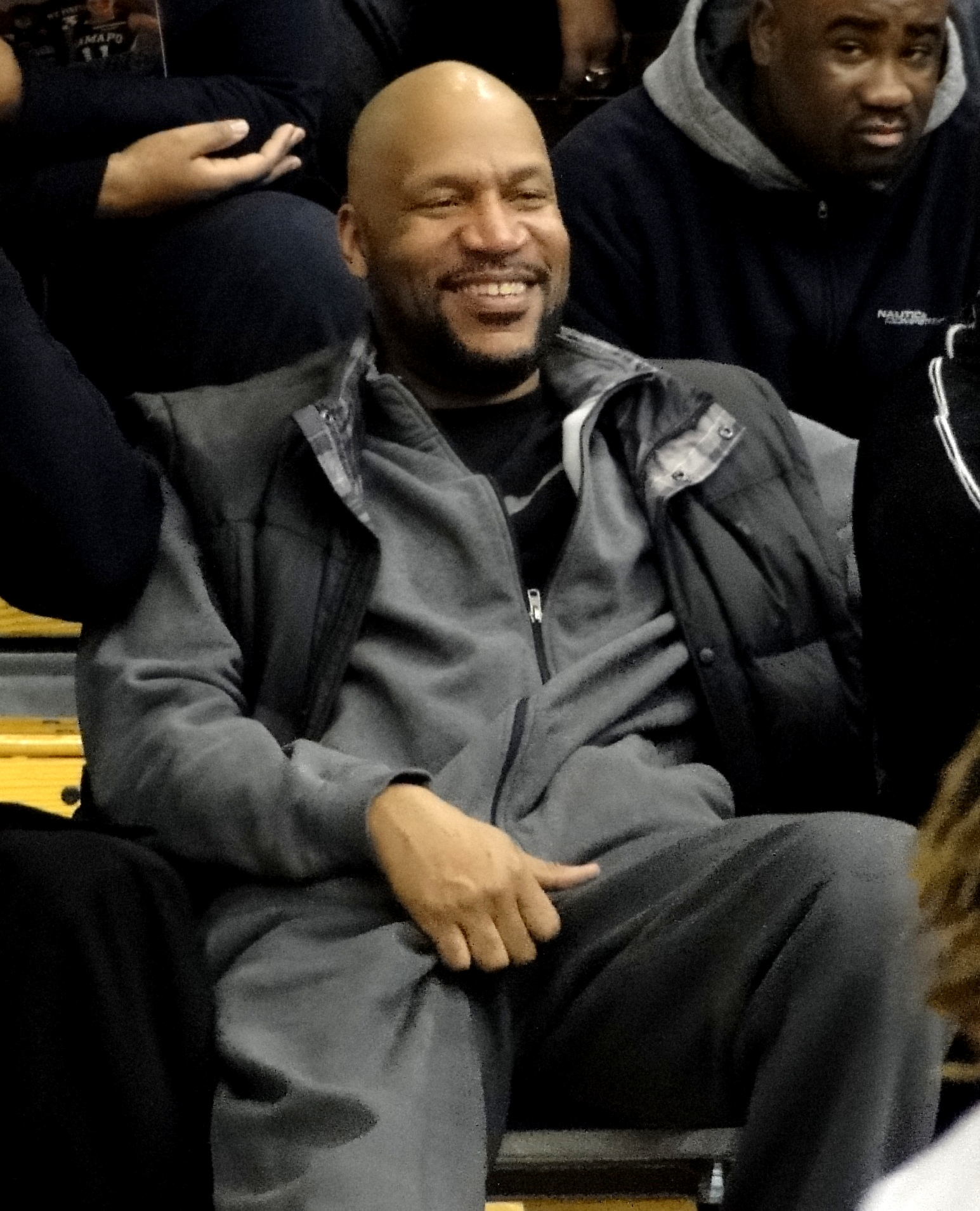 Ron Harper on February 13, 2011